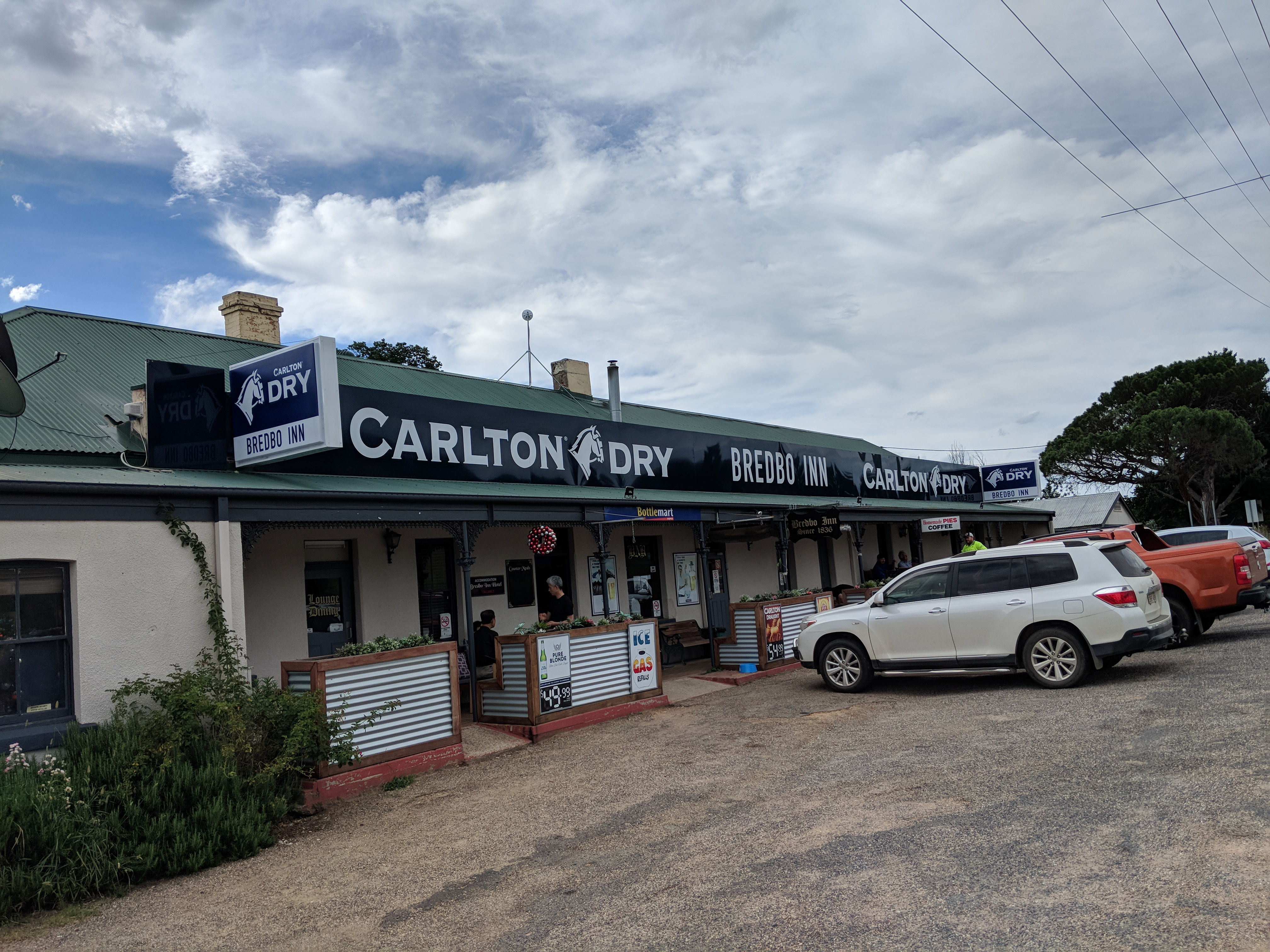 Bredbo Pub, New South Wales